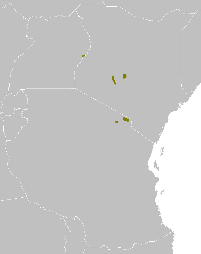 East African montane moorlands ecoregion map